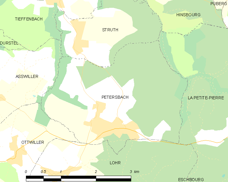 Map of French municipality